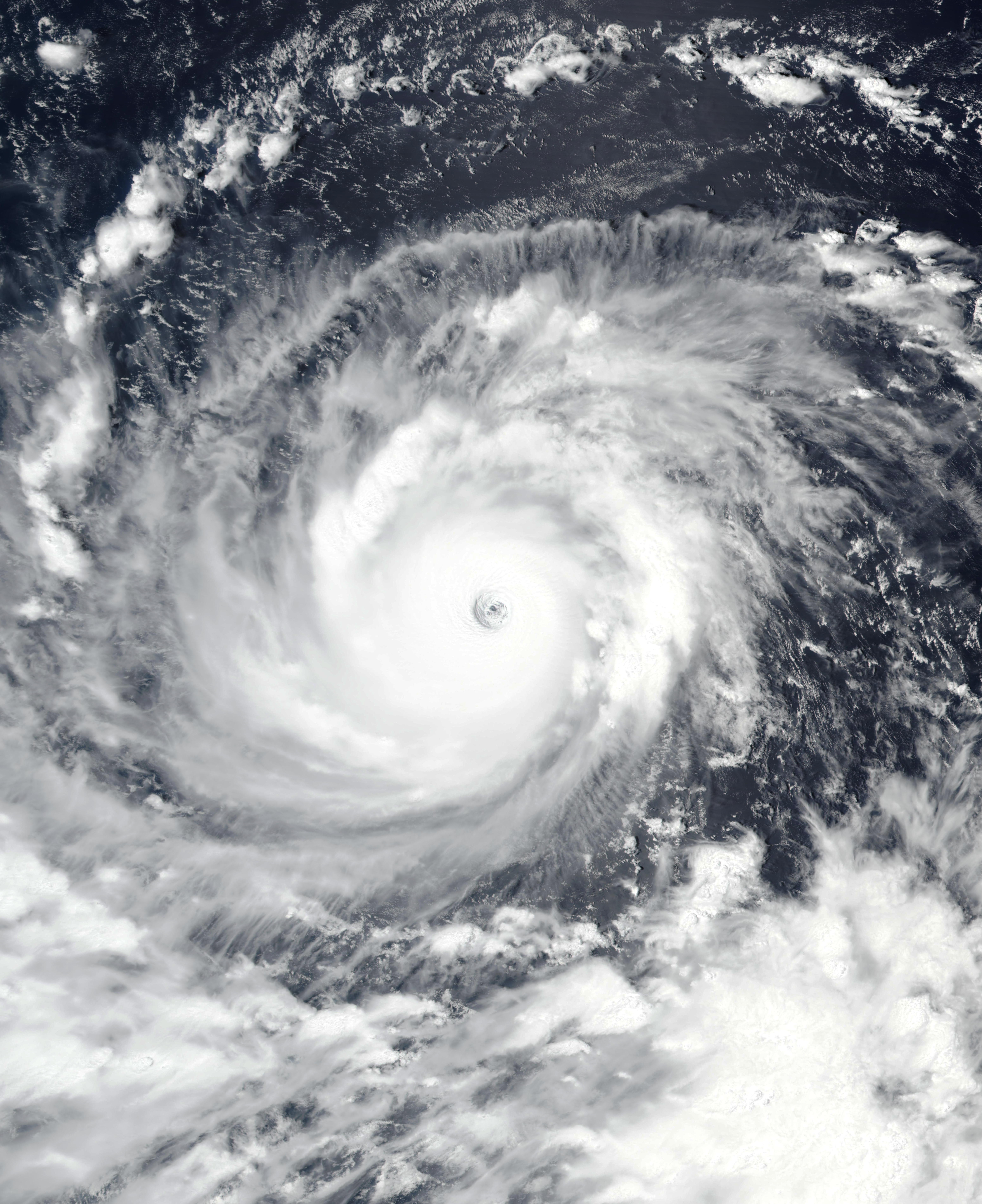 Typhoon Mangkhut (26W) at peak intensity, as a Category 5-equivalent super typhoon on September 12, 2018